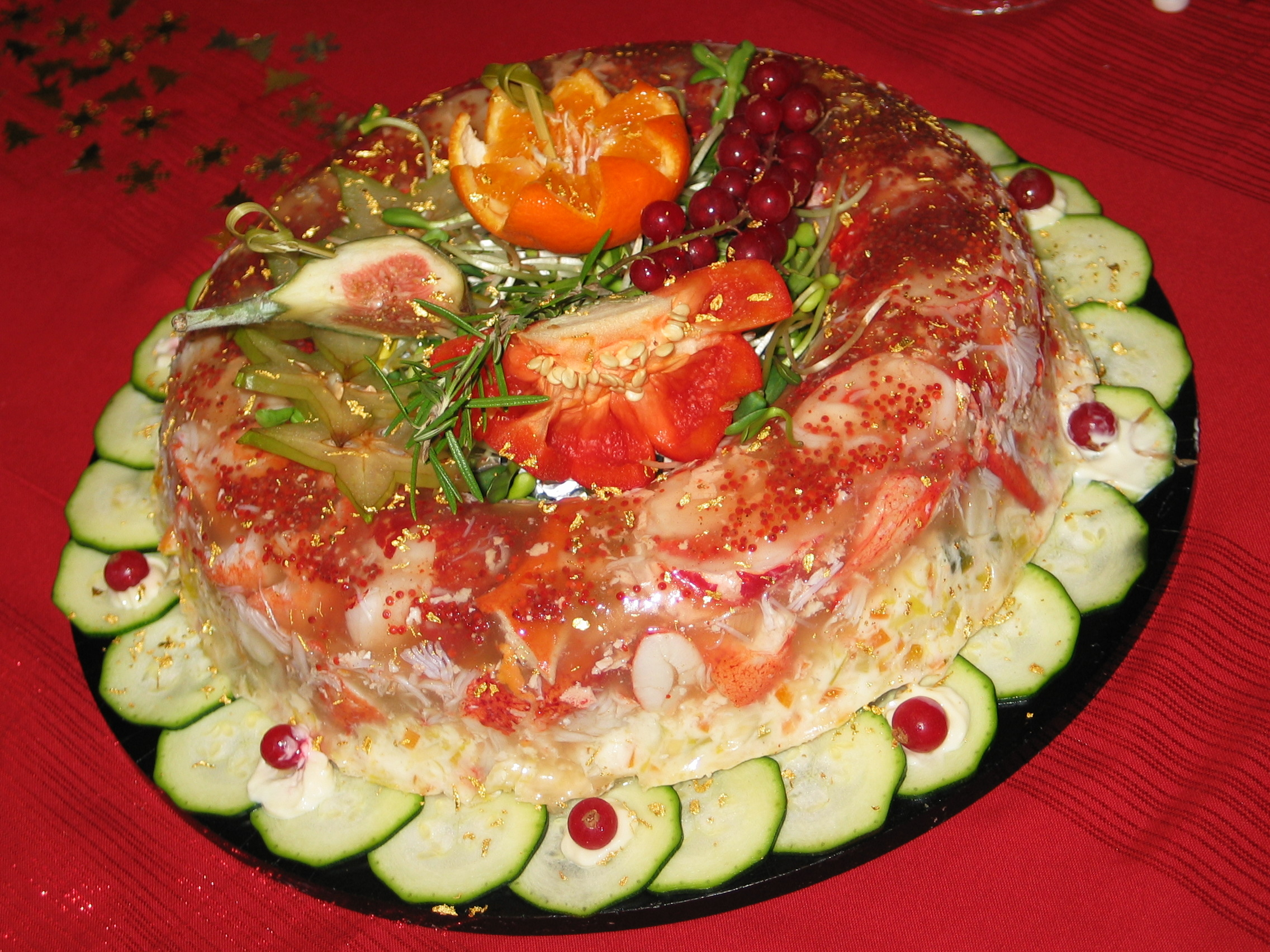 Lobster dish